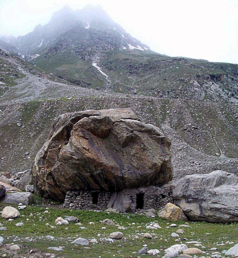 I took this photo on a trip to northern India in 2010.